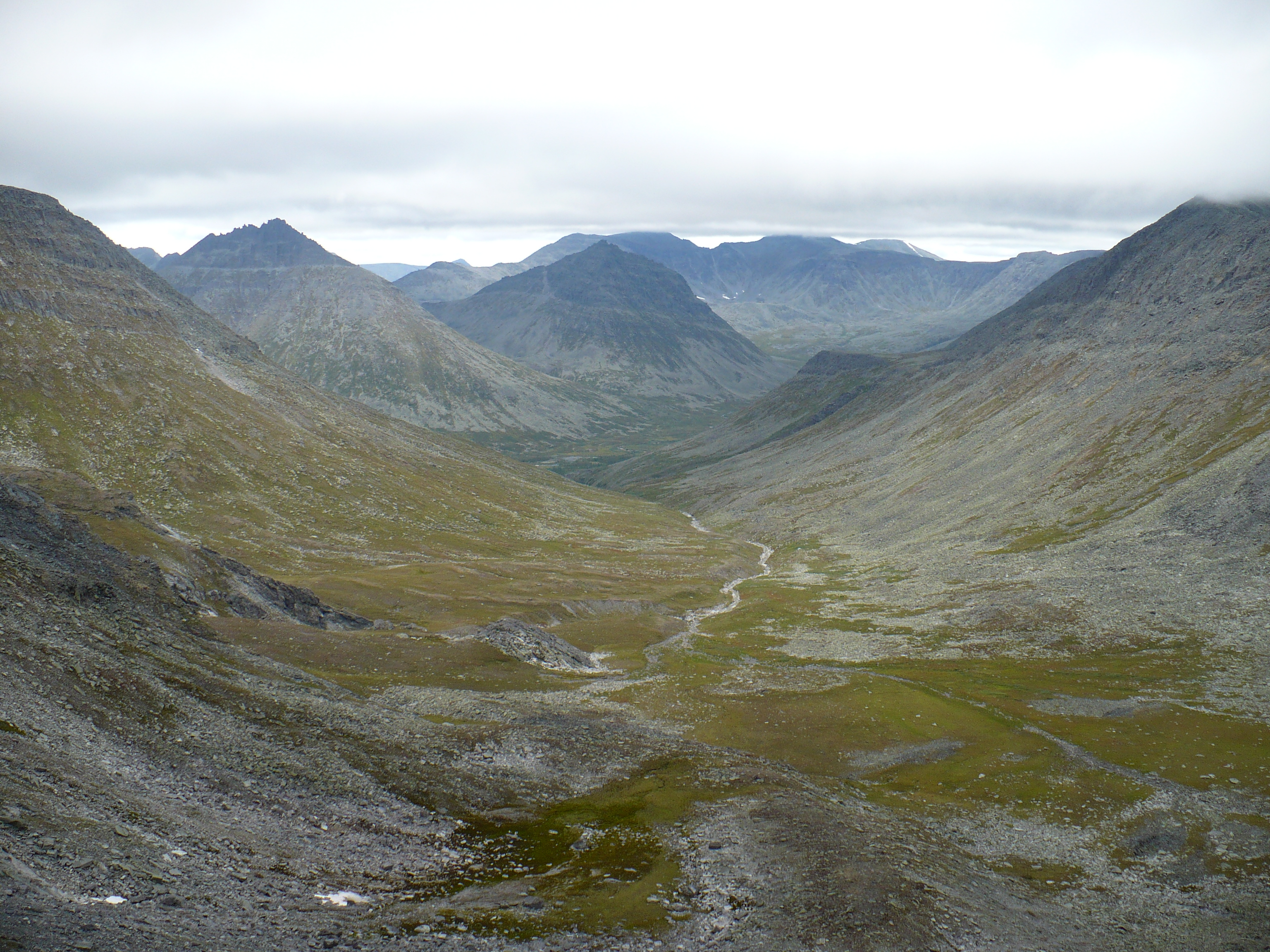 Photo of NearPolar Ural in 2008 on aprox. 1500 meters from Manaraga.